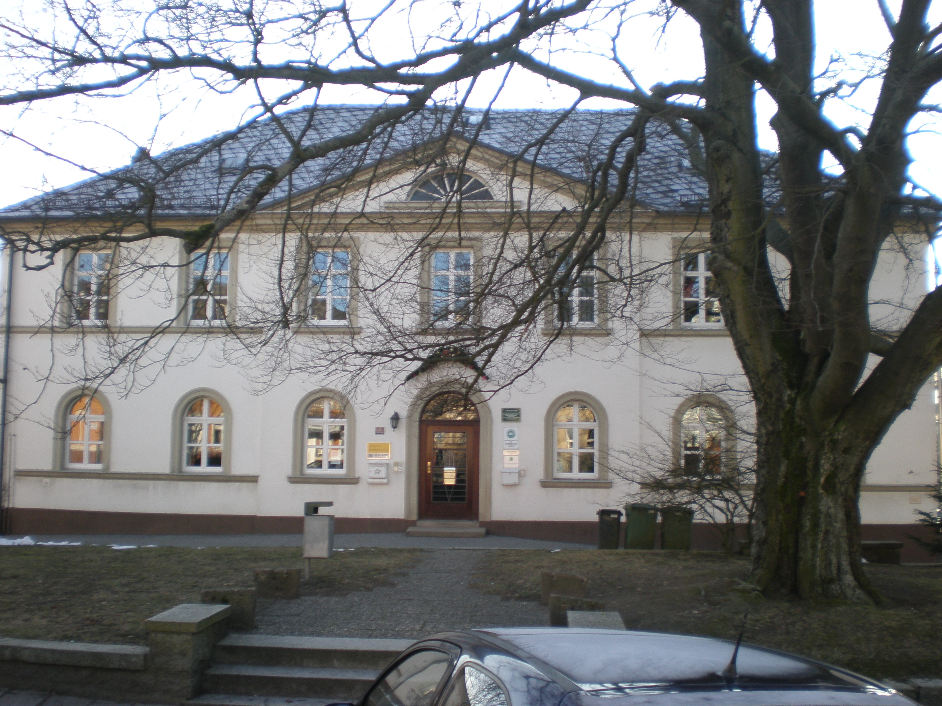 The former mansion in Münchberg.